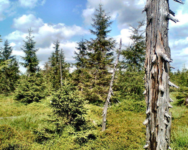 Summit of Złote Jamy in the Polish part of the Jizera mountains